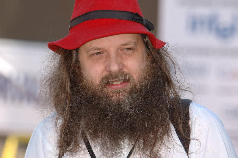 A picture of Alan Cox taken at FOSS.